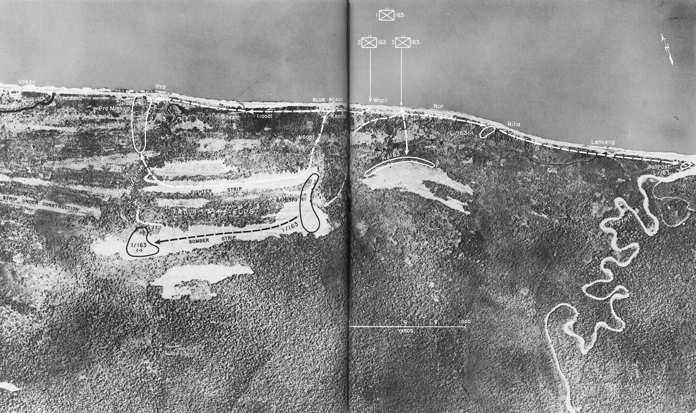 Aitape Landings (Operation Persecution, April 1944)